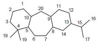 Icetaxane structure